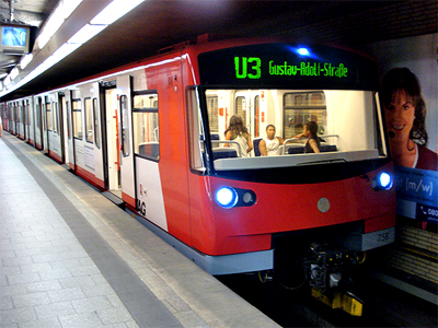 A train in the Nuremberg underground, August 2009